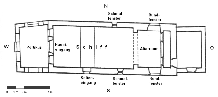 Floor plan of the church of St. Mary in Beram